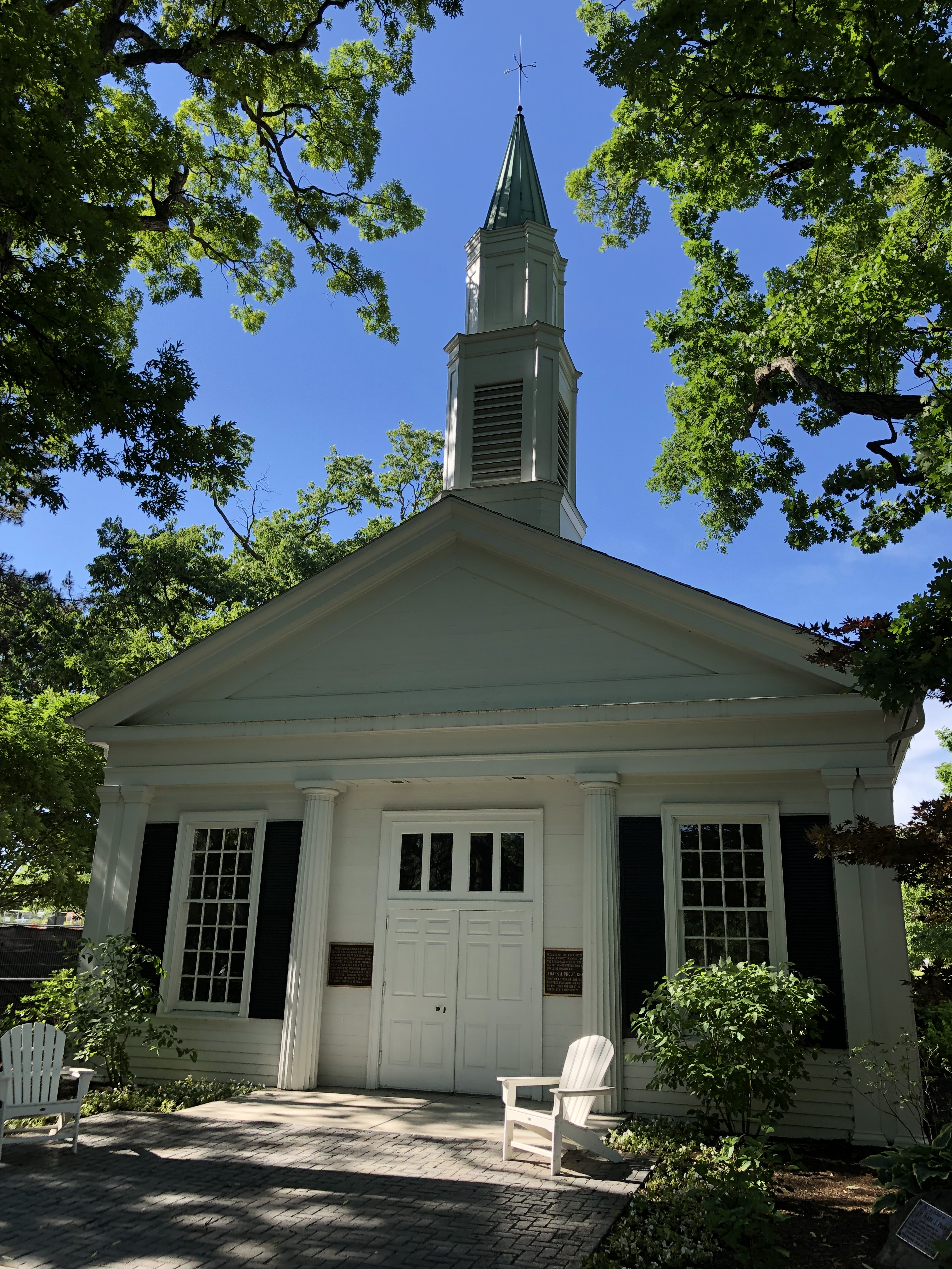 Prout Chapel exterior at BGSU